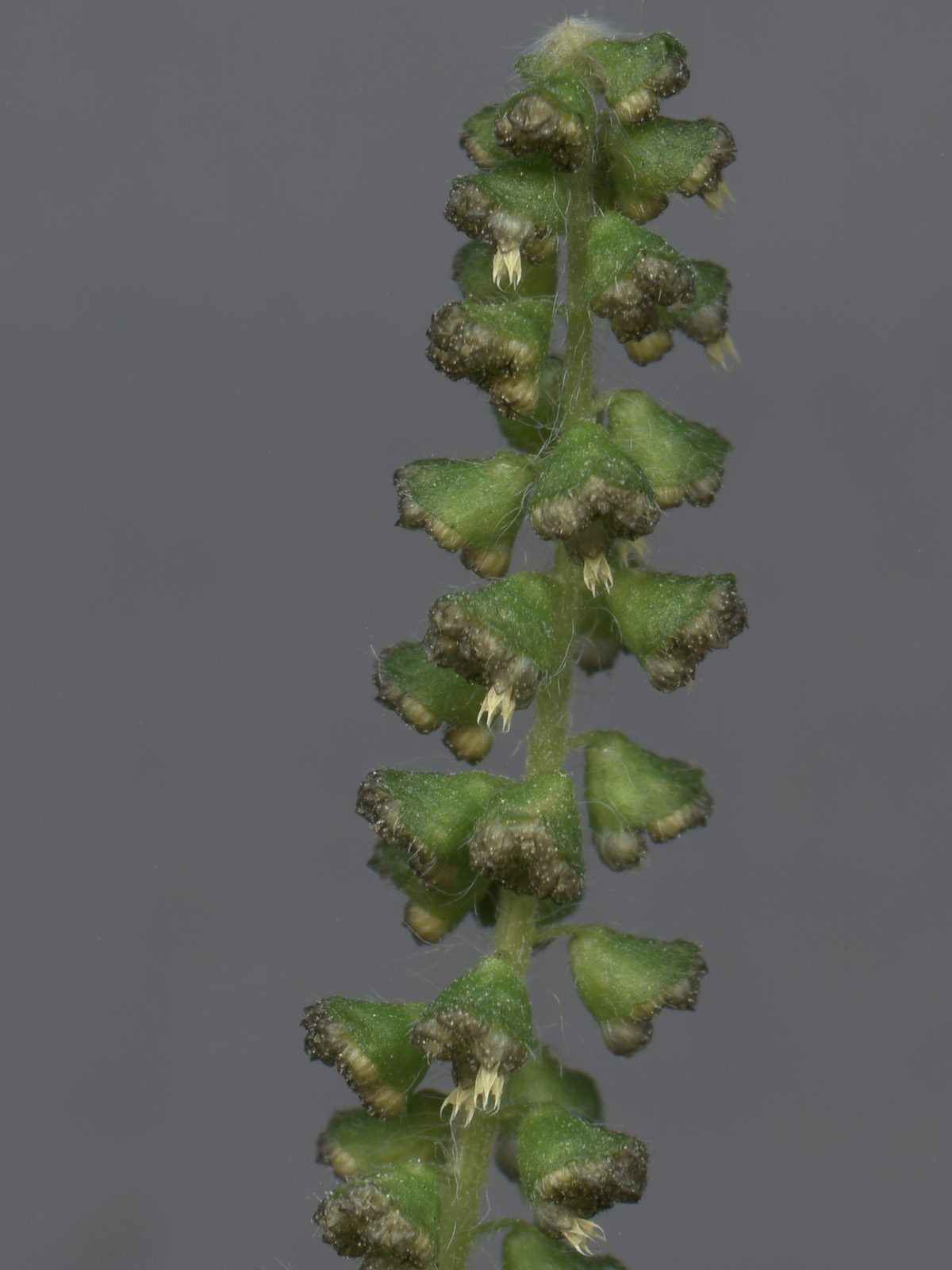 Annual Ragweed (Ambrosia artemisiifolia), male Blossoms